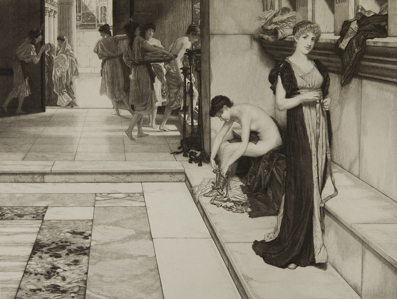 "An Apodyterium - The disrobing room of a Roman Ladies Bath" Leopold Lowenstam after Lawrence Alma-Tadema